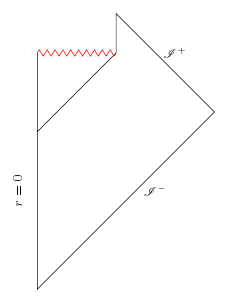 A Penrose diagram of a black hole which forms, and then completely evaporates away due to Hawking radiation. This illustrates the black hole information paradox.